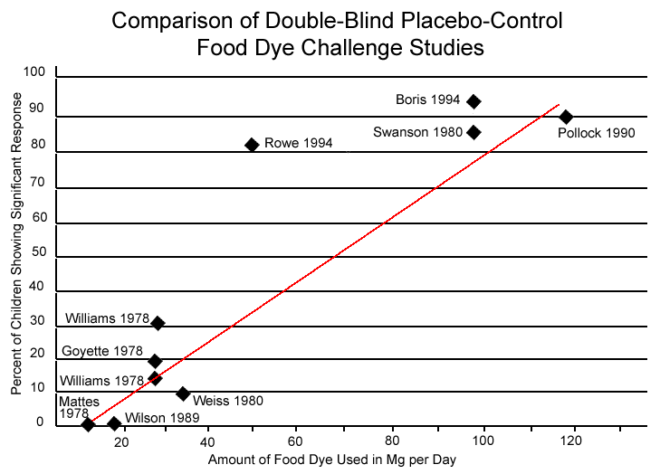 Comparison of Double-Blind Placebo-Control Food Dye Challenge Studies